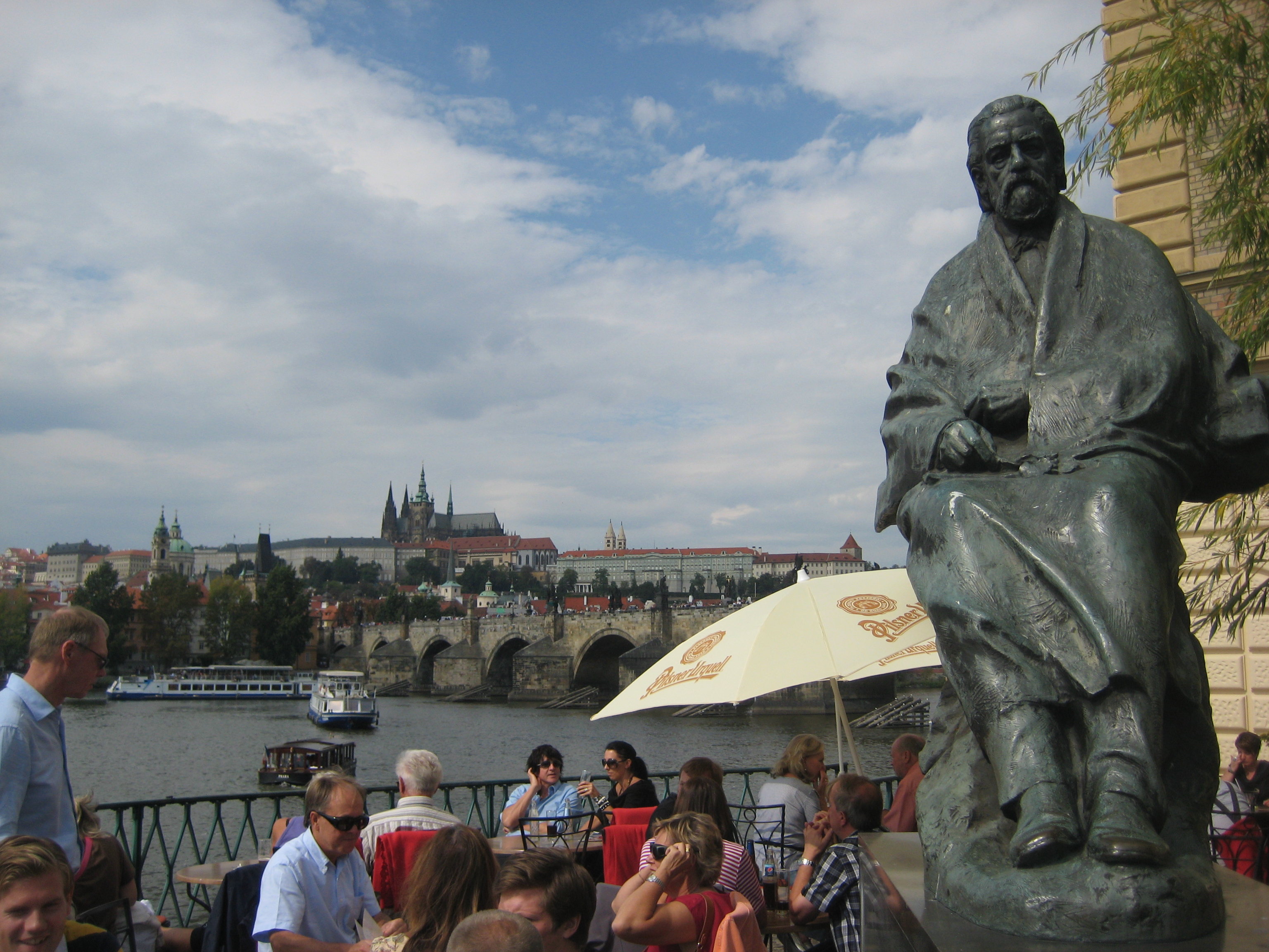 Composer Bedřich Smetana monument in Prague